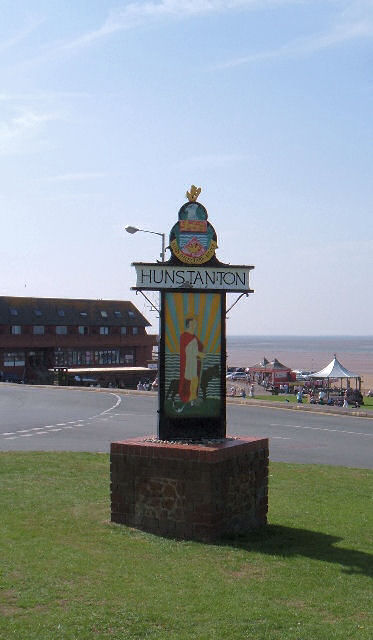 Hunstanton town sign A view of the Hunstanton town sign looking in a south-westerly direction with the beach in the background.